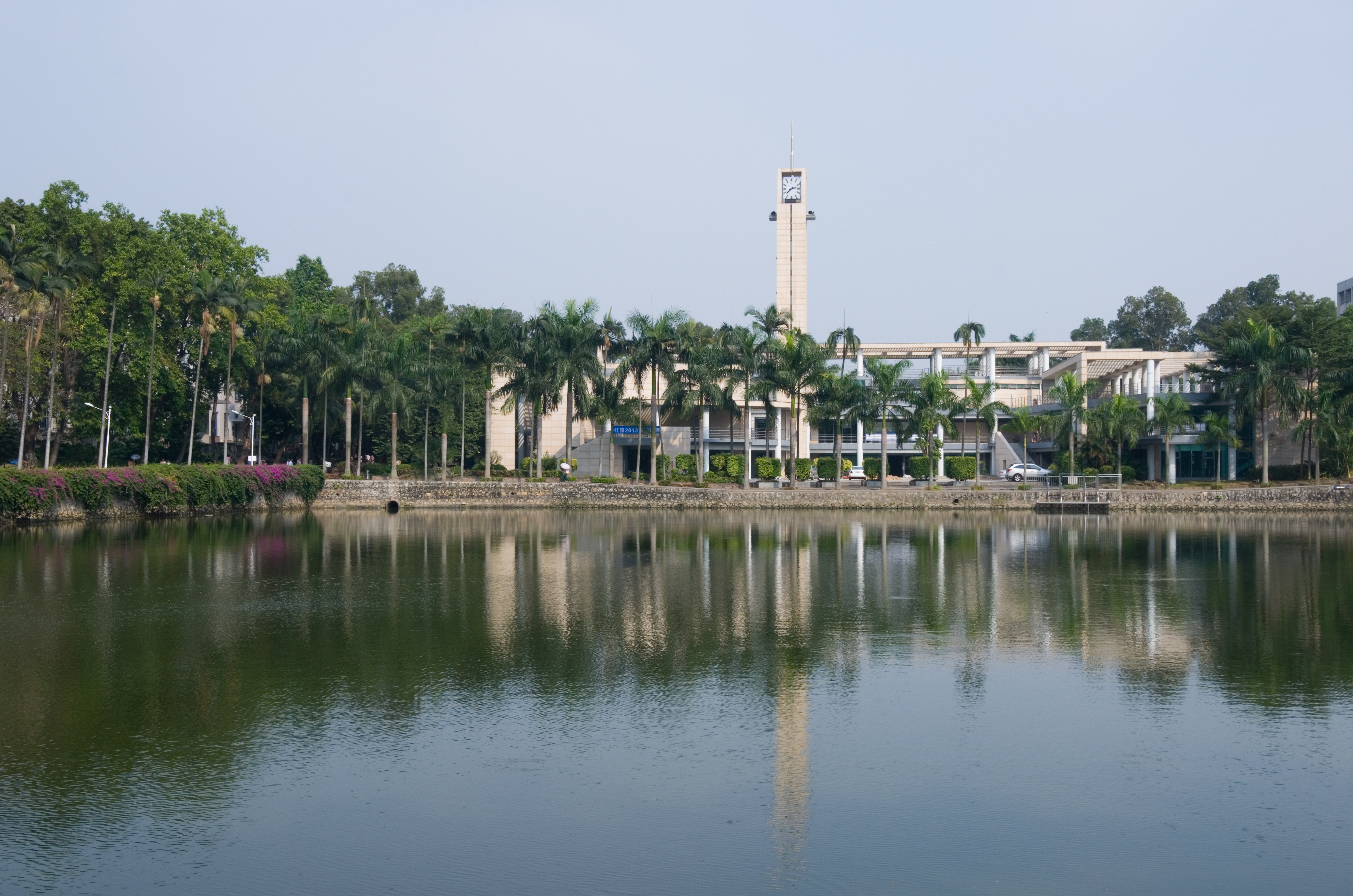 South China University of Technology Shaw Building of Humanities